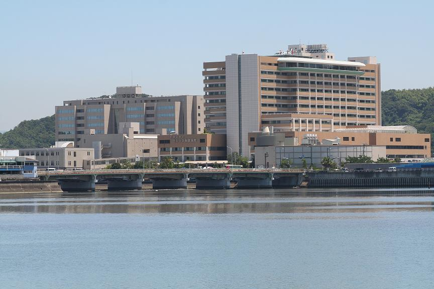 University complete view